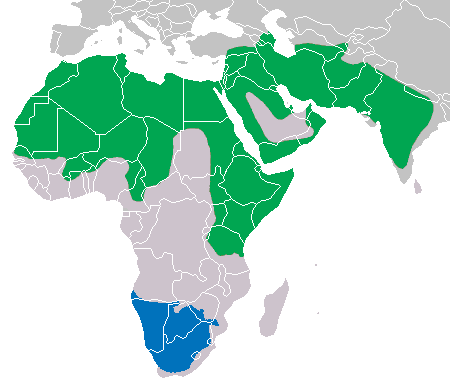 Derived from constituent taxa. Hyanea brunnea - blue Hyanea hyaena - green